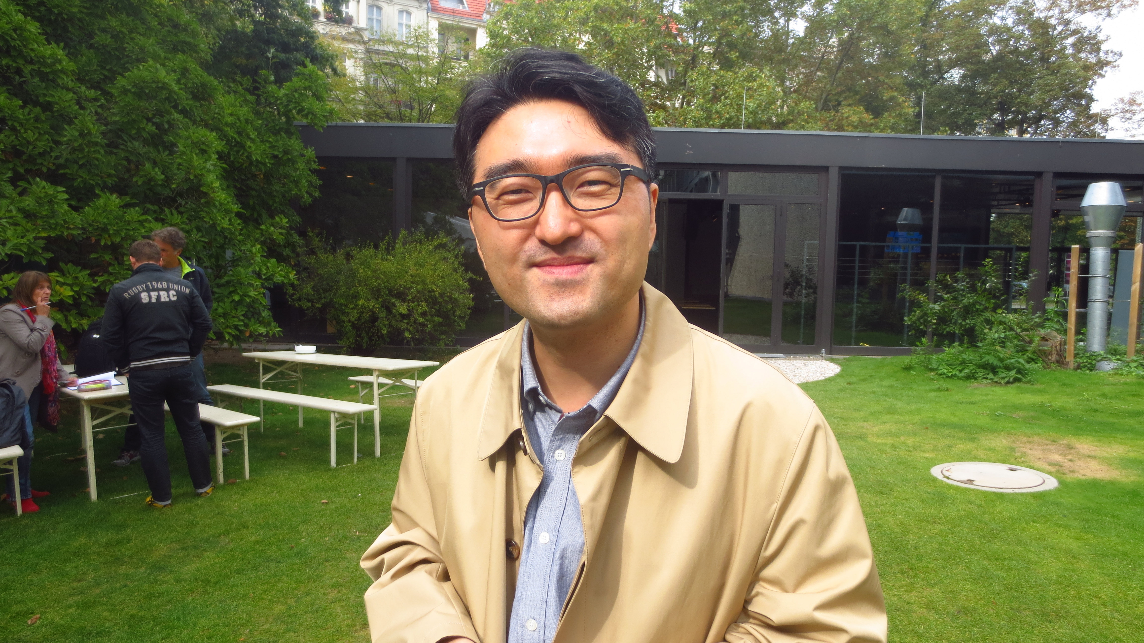 Painter and illustrator Kim Dong-sung in the festival garden of Haus der Berliner Festspiele during the 14th international literature festival berlin on September 11th, 2015.JPG